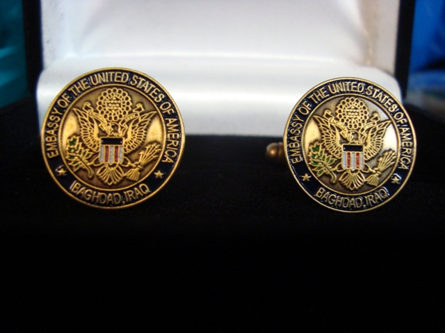 American Embassy Cufflinks (Baghdad, Iraq) 2009